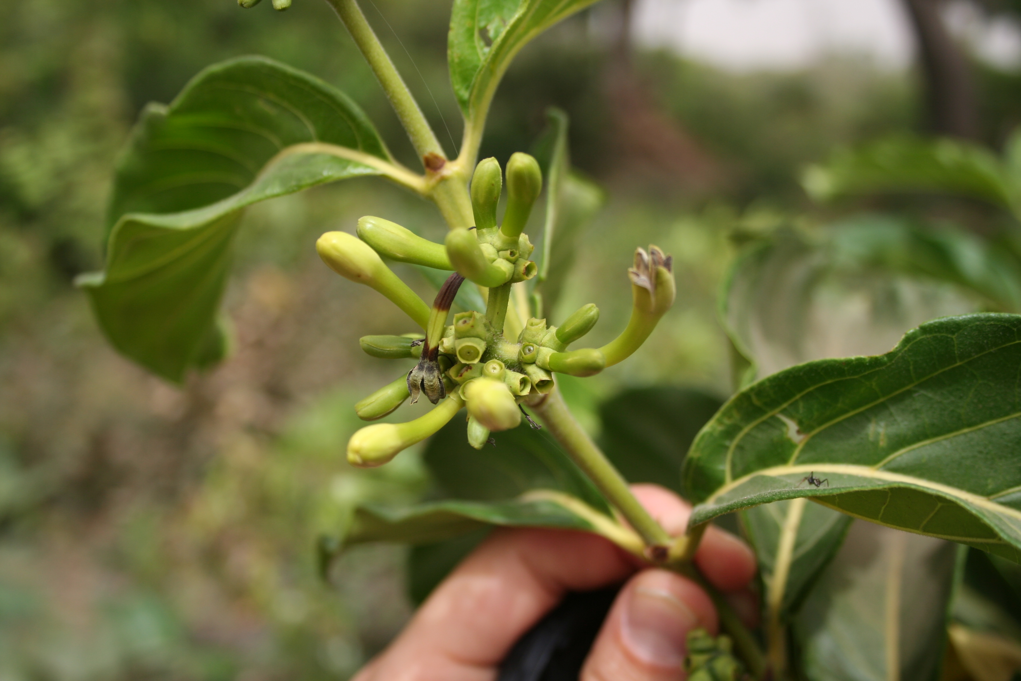 flowers of Morinda geminata, near F.Cl. de Patako, Senegal